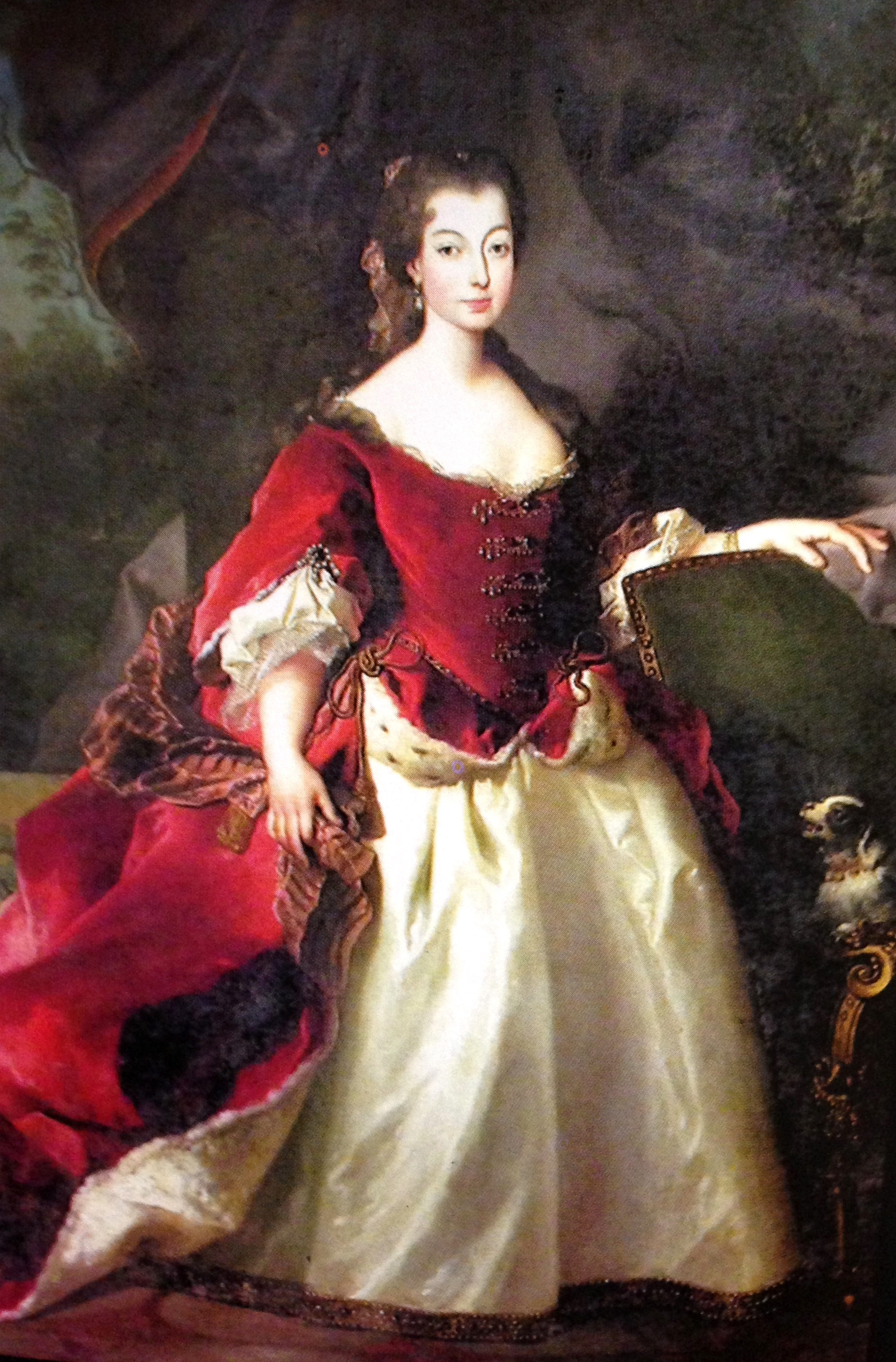 Reis de Portugal: Pedro II by Maria Paula Marçal Lourenço